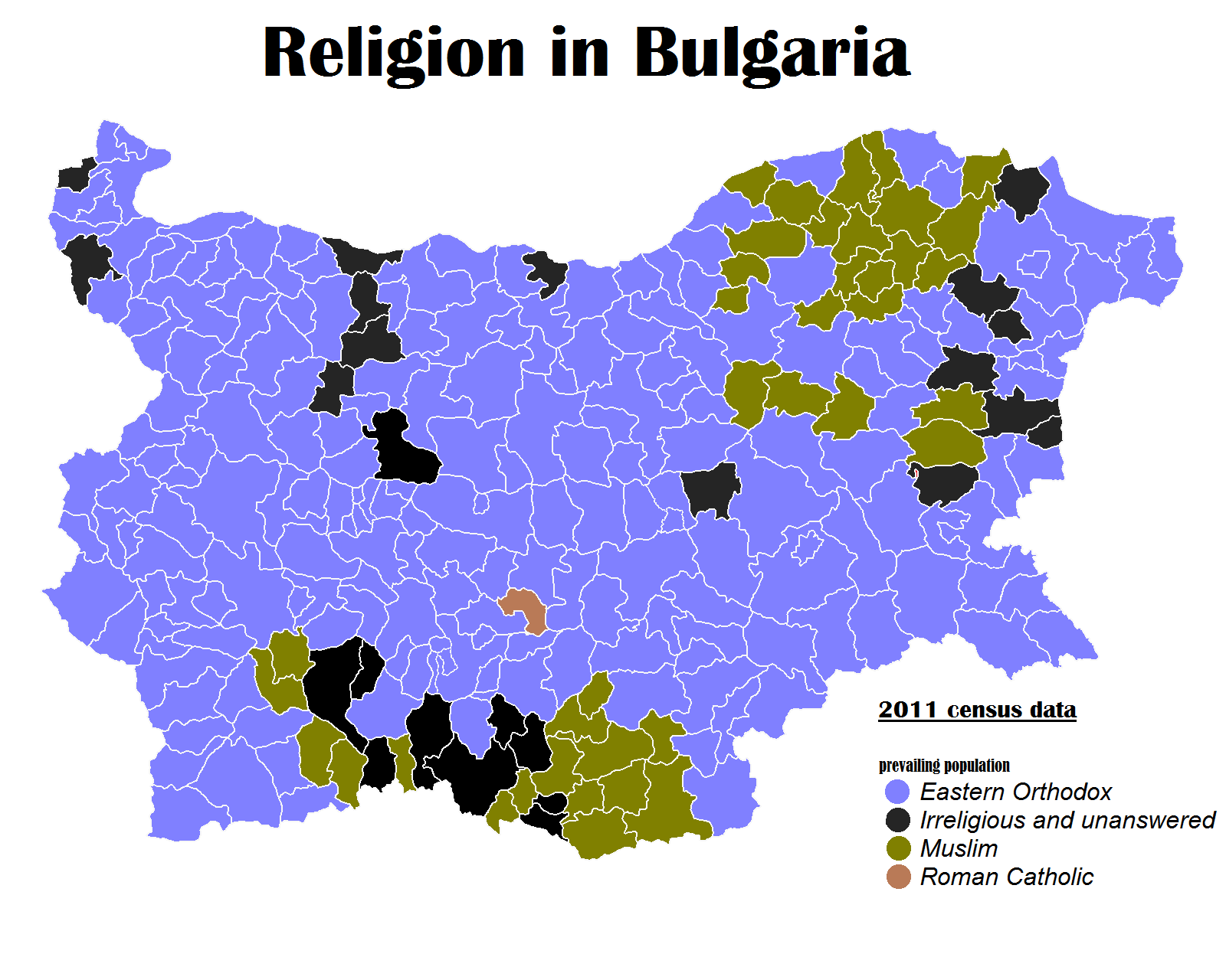 Religious composition according to 2011 census data